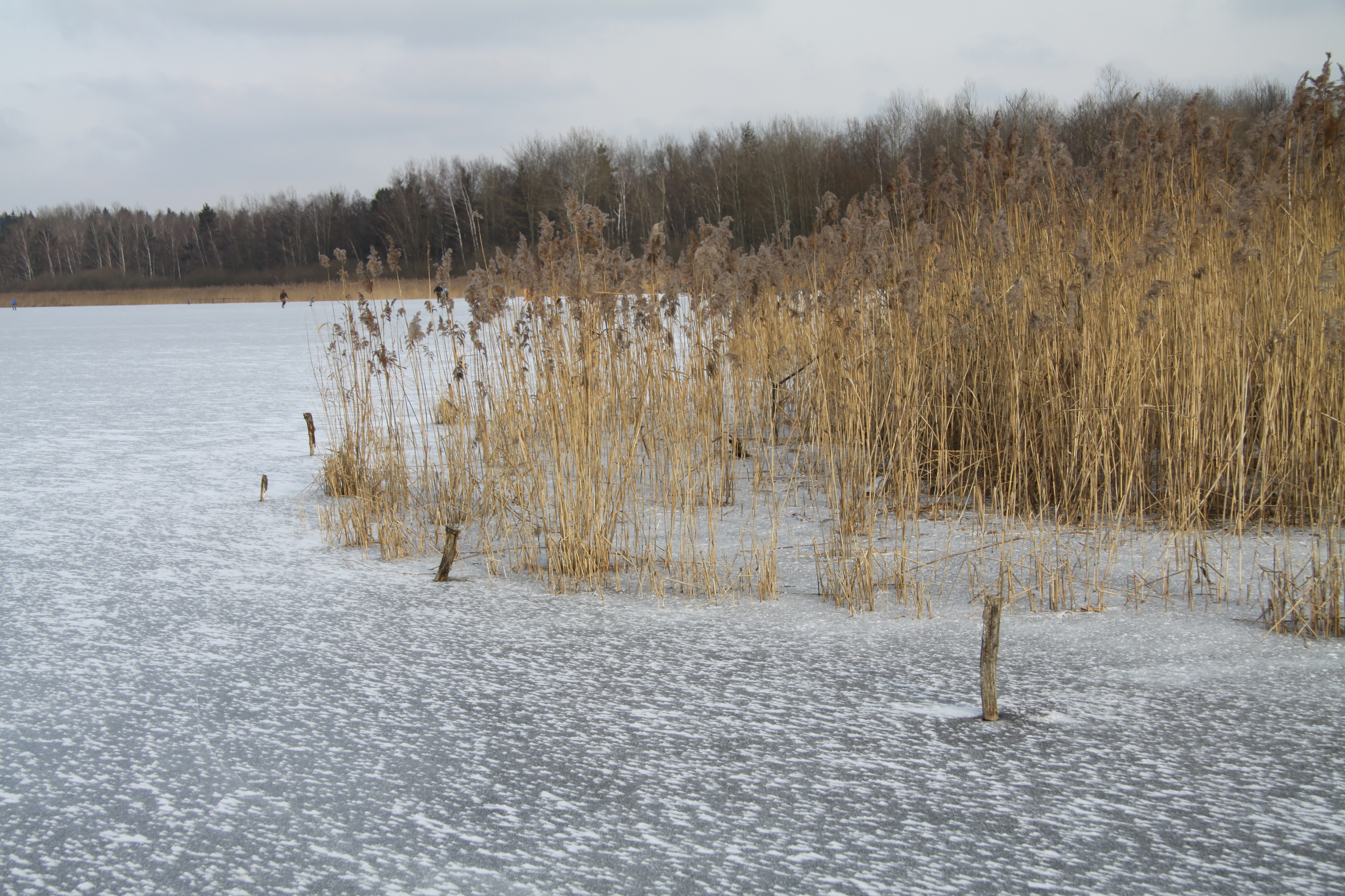 Řežabinec pond in winter in national nature reserve Řežabinec a Řežabinecké tůně in Písek District, Czech Republic